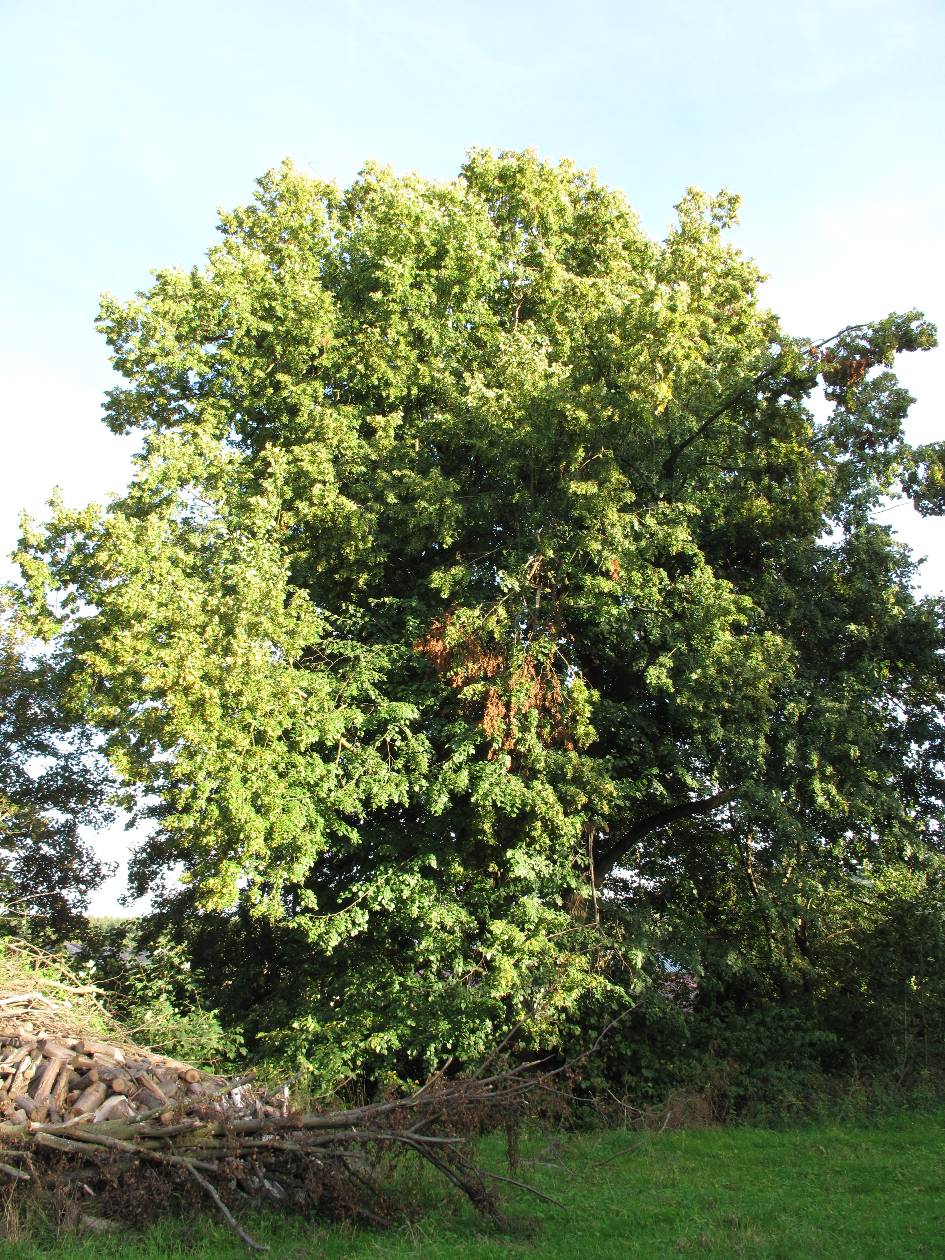 View of the memorable tree Lípa v Kovosvitu - Small-leaved Lime (Tilia cordata), Rokycany District, Czech Republic.